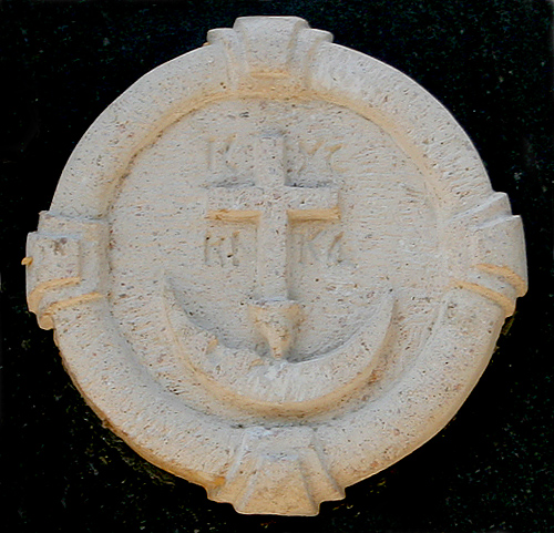 The sign of Lutsk Orthodox Fellowship of True Cross